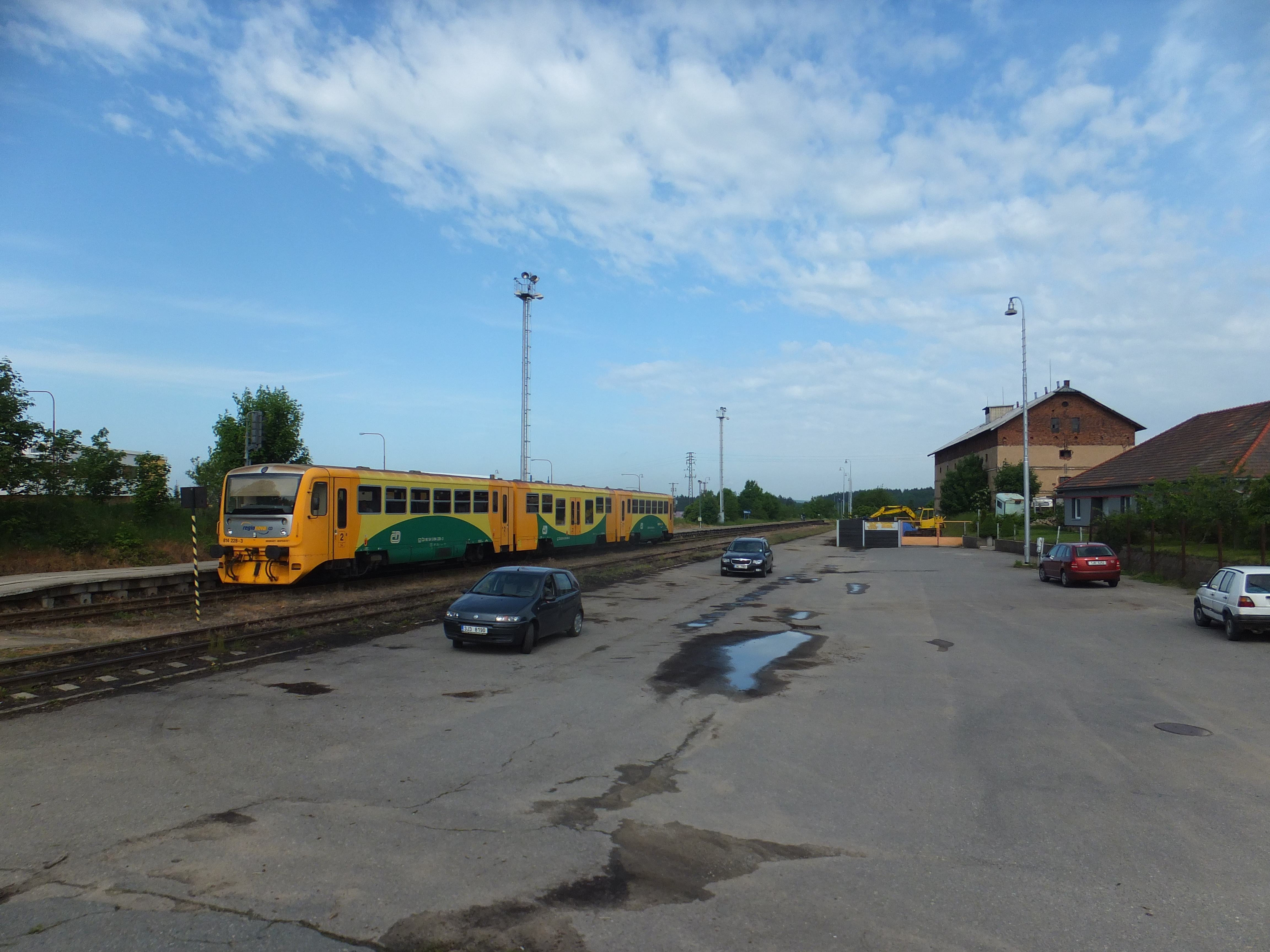 Motor train unit Regionova (ČD class 814) in the train station in Bystřice nad Pernštejnem